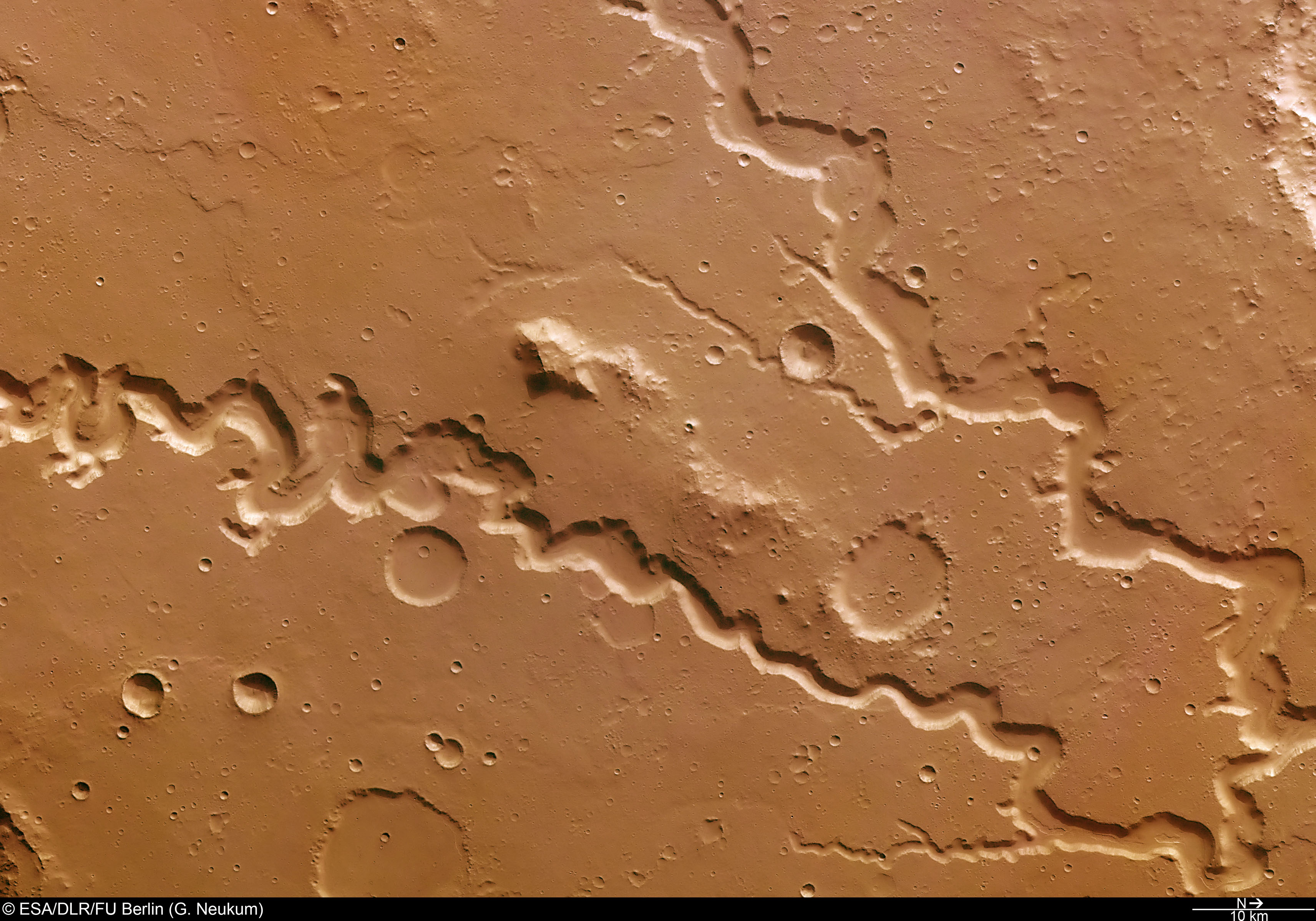 Nanedi Valles, a roughly 800-kilometre valley extending southwest-northeast and lying in the region of Xanthe Terra, southwest of Chryse Planitia. In this view, Nanedi Valles ranges from approximately 0.8- to 5.0-kilometre wide and extends to a maximum of about 500 metres below the surrounding plains. This valley is relatively flat-floored and steep-sloped, and exhibits meanders and a merging of two branches in the north. The valley's origins remain unclear, with scientists debating whether erosion caused by ground-water outflow, flow of liquid beneath an ice cover or collapse of the surface in association with liquid flow is responsible. Image captured by the High-Resolution Stereo Camera (HRSC) onboard ESA's Mars Express on 3 October 2004 during orbit 905. North is to the right.